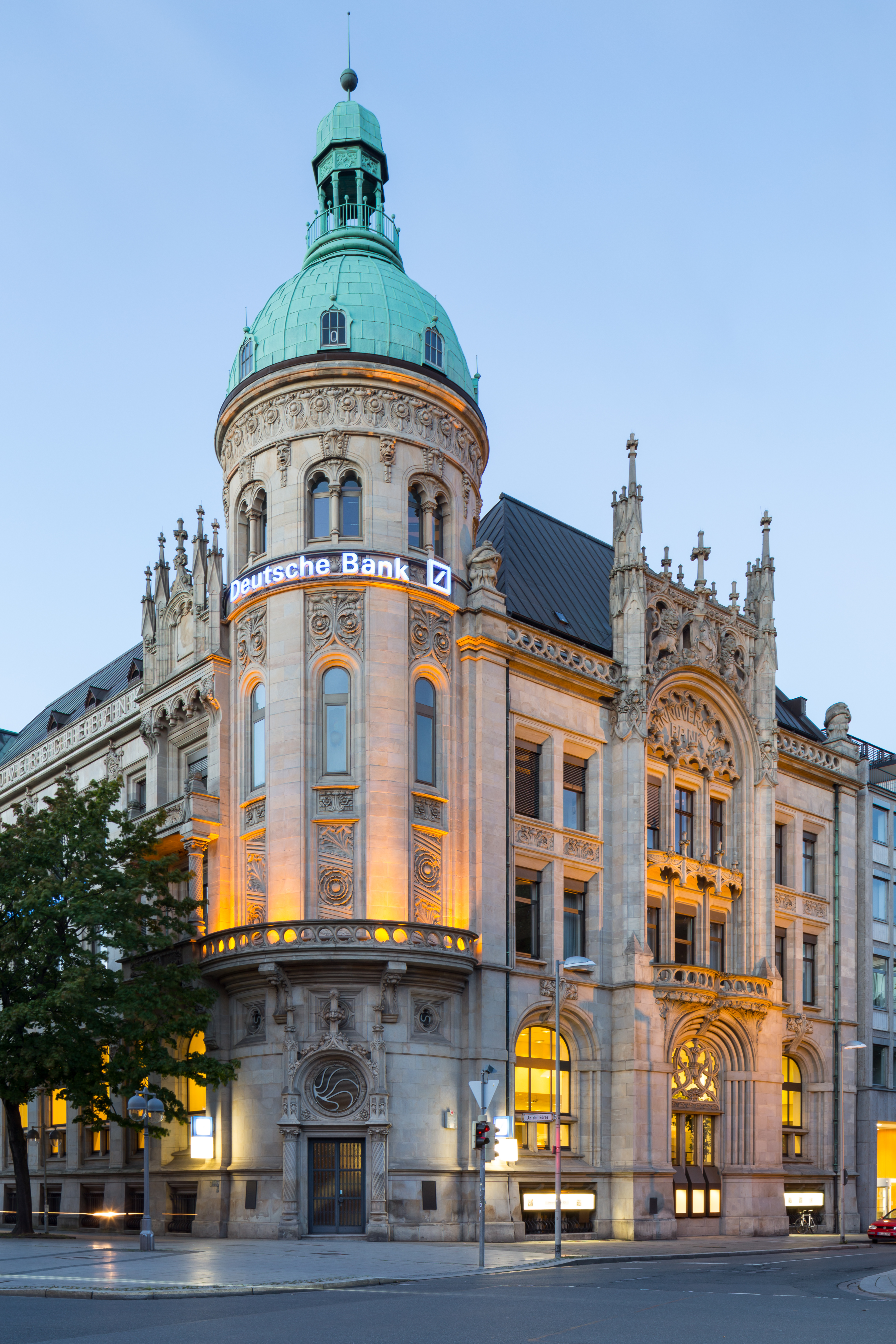 Office building of former Hannoversche Bank (house no. 3), today used by Deutsche Bank. The building is located at Georgsplatz square and Georgstrasse in Mitte quarter of Hannover, Germany.